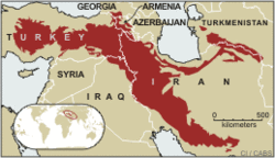 Southwest Australia hotspot map